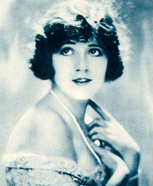 Publicity photo of Helen Ferguson from Stars of the Photoplay. Helen Ferguson, a graduate of the Nicholas High School of Chicago and the Academy of Fine Arts, decided to enter motion pictures and received her first experience with the Essanay Company of that city. She appeared with Henry Walthall in "Temper." This was in April, 1915. She has steadily increased in popularity since that time. Miss Ferguson has won fame as a character delineator, and is considered one of the screen's most versatile performers. She was born in Decatur, Illinois, in 1901. She is five feet, three inches tall, and weighs 125 pounds. Has brown hair and eyes. Not married.